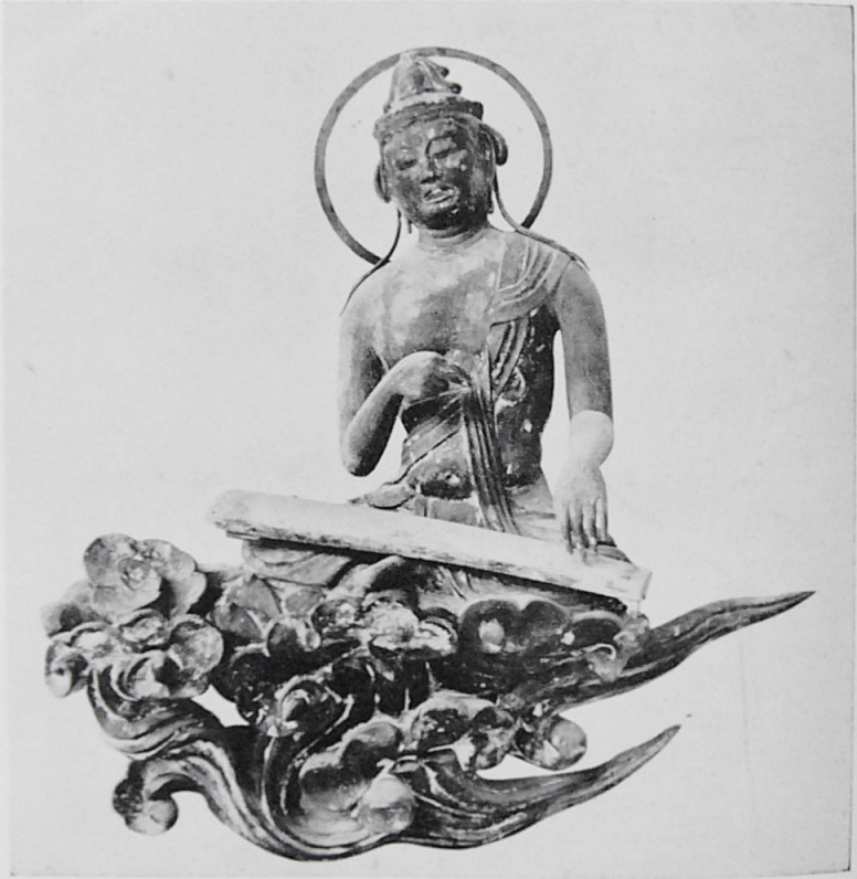 A BOSATSU(Bodhisatva) playing KOTO（japanese zither) in CLOUD, Numbered North1, about 90cm BODY height, about ACE1053